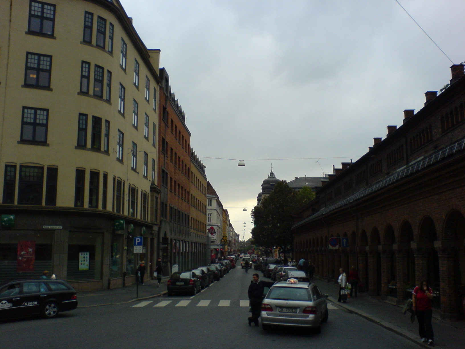 The street Dronningens gate (Oslo, Norway) seen from the street Biskop Gunnerus' gate